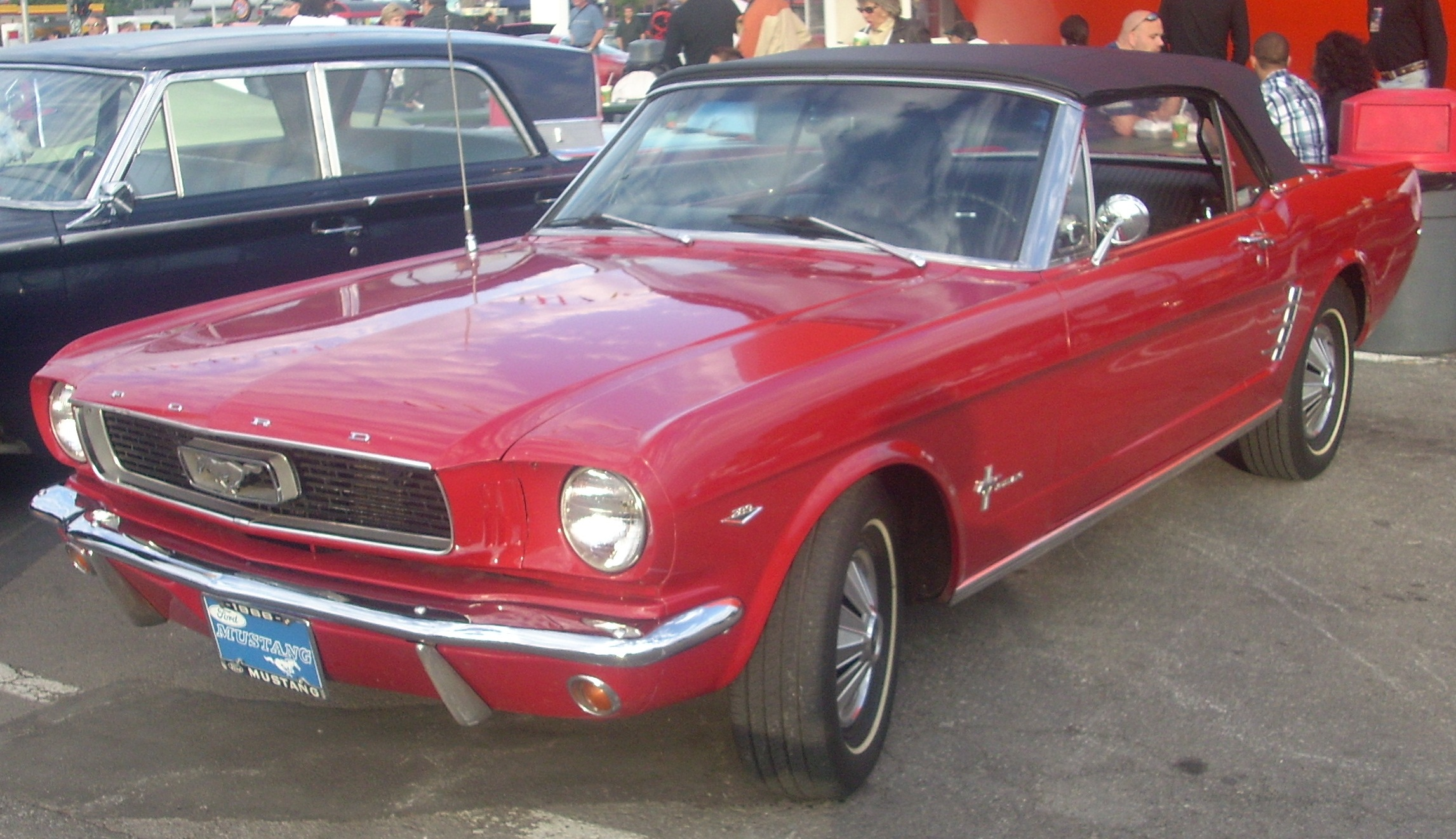 1966 Ford Mustang photographed in Montreal, Quebec, Canada at Gibeau Orange Julep.